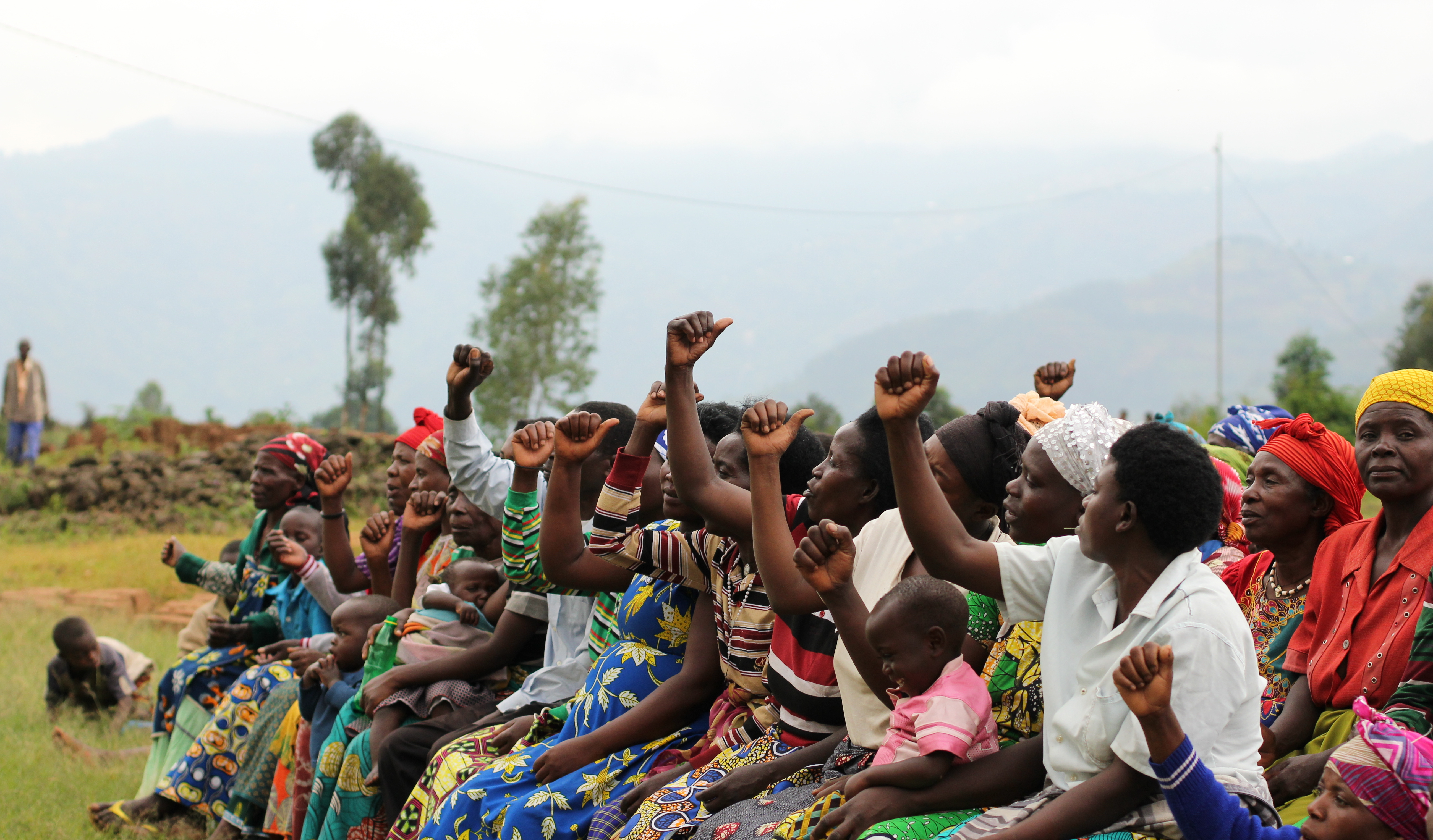 A Spark community in Rwanda begins their weekly meeting, with attendees singing their goals together and raising their hands.